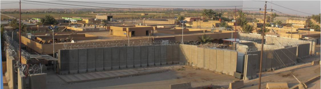 The Gulf Region Division, U.S. Army Corps of Engineers in Iraq is completing security upgrades to Al Qa'im courthouse in Al Anbar Province. The $750,000 project is being funded by the International Narcotics and Law Enforcement Fund.